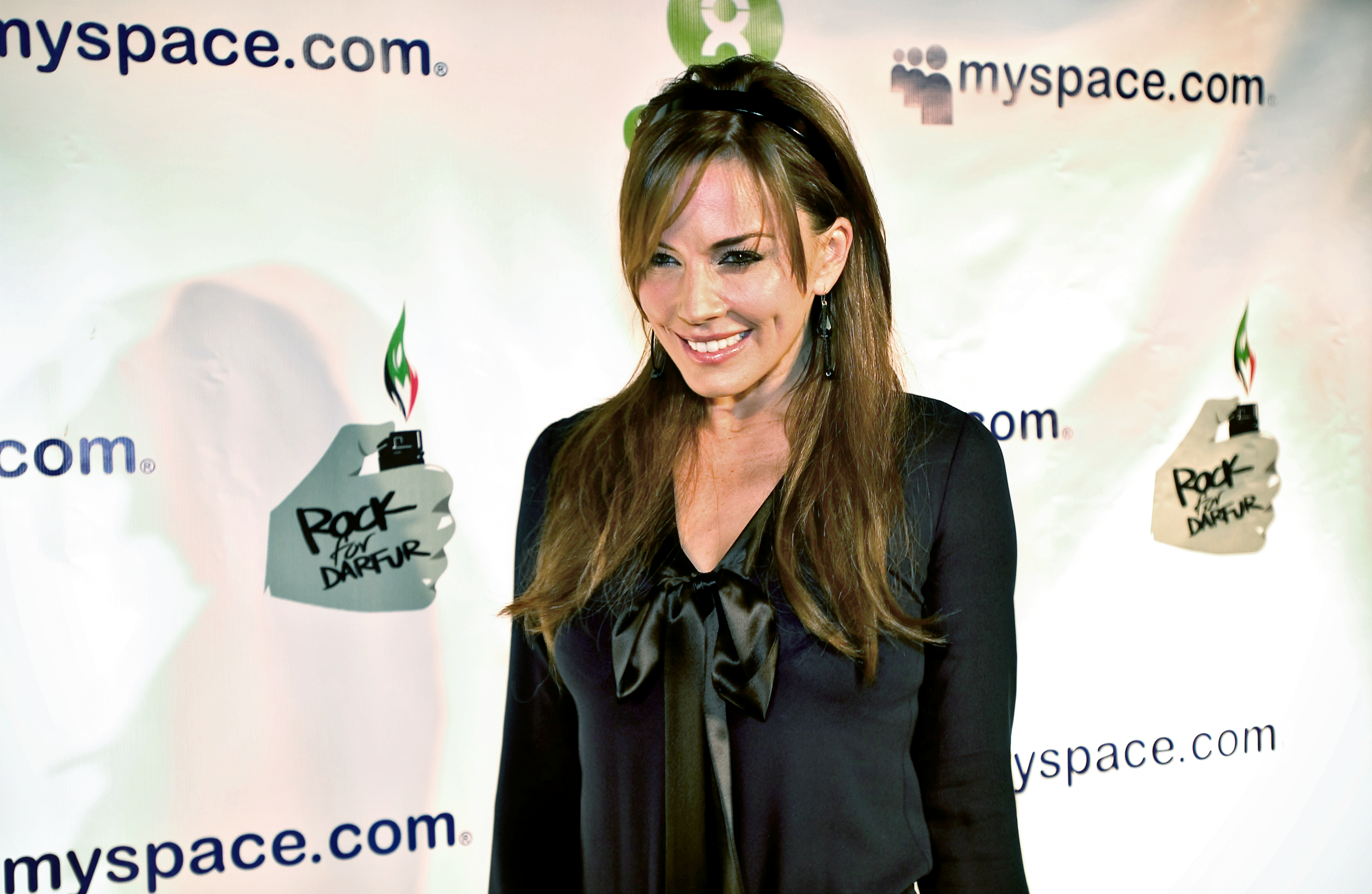 Actress Krista Allen attends the Oxfam America/MySpace Rock for Darfur event. To learn more about Oxfam's work in Darfur, click here